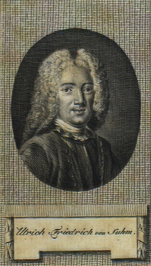 Ulrik Frederik Suhm (1686-1758), Danish Admiral